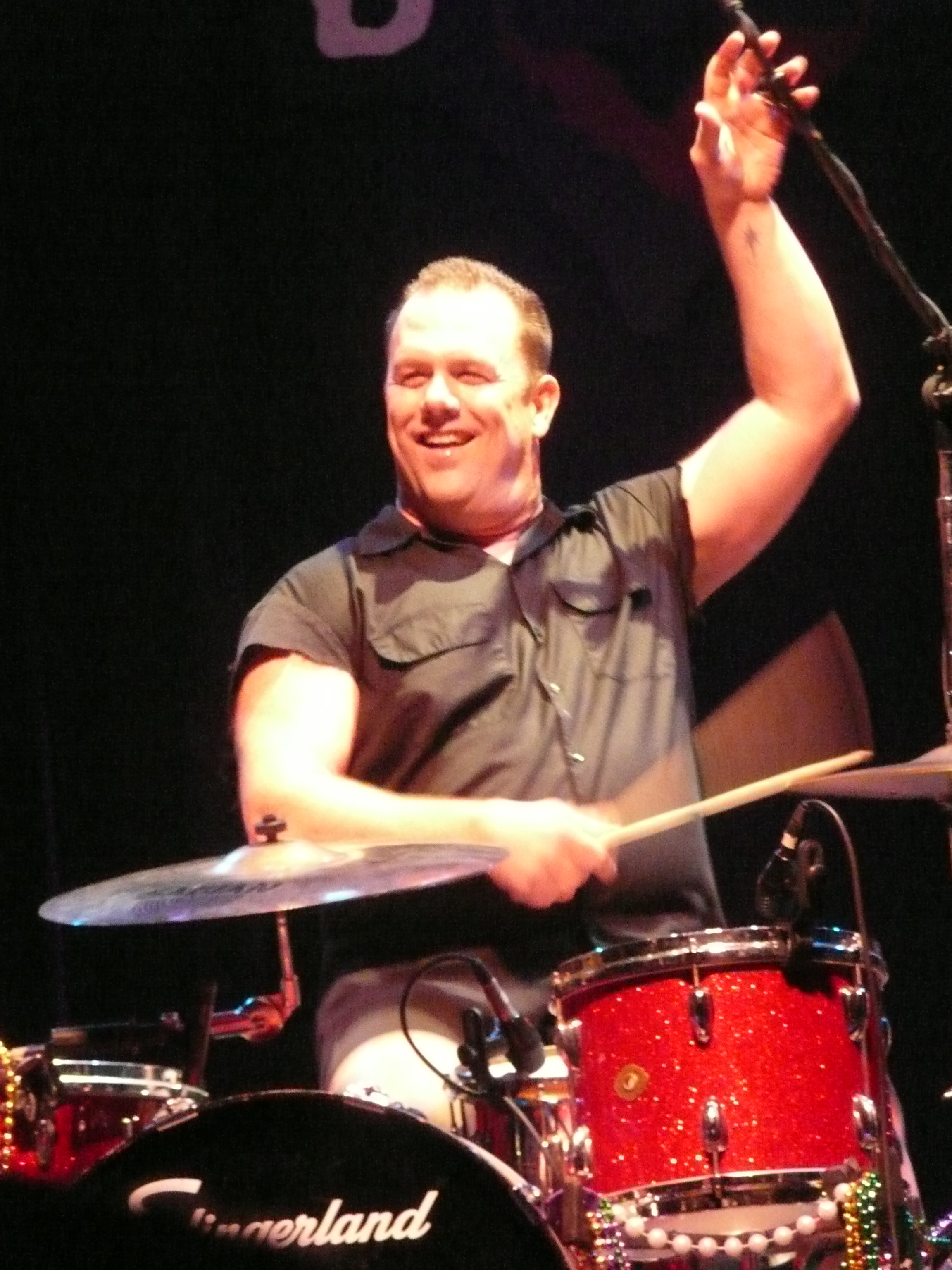 His singing voice all but lost from singing on a cold Lundi Gras in New Orleans the night before, Fred LeBlanc of Cowboy Mouth can't help but smile abashedly. On Mardi Gras night at the House of Blues in Houston, Fred's energy still came through for him and the Mouth fans.